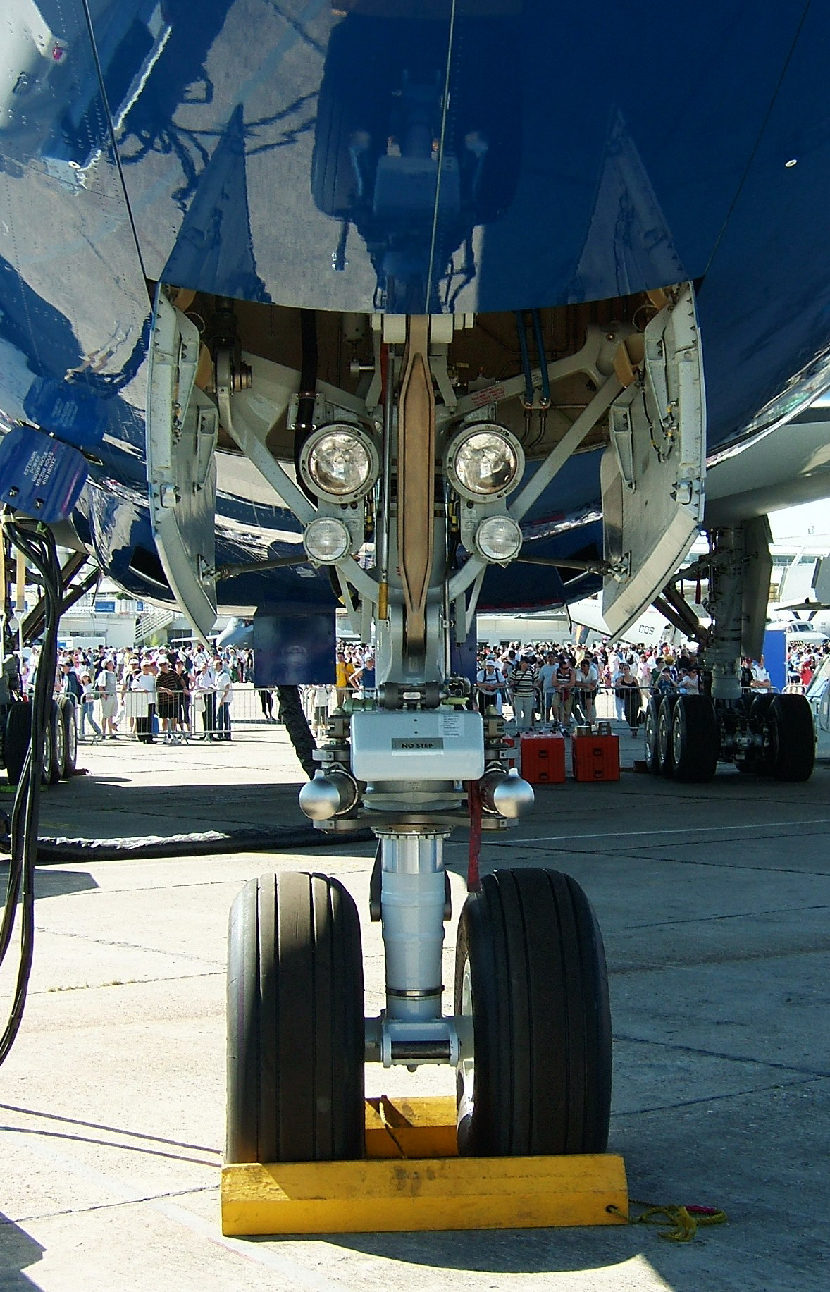 Boeing 777 nose undercarriage, 2005 Paris Air Show